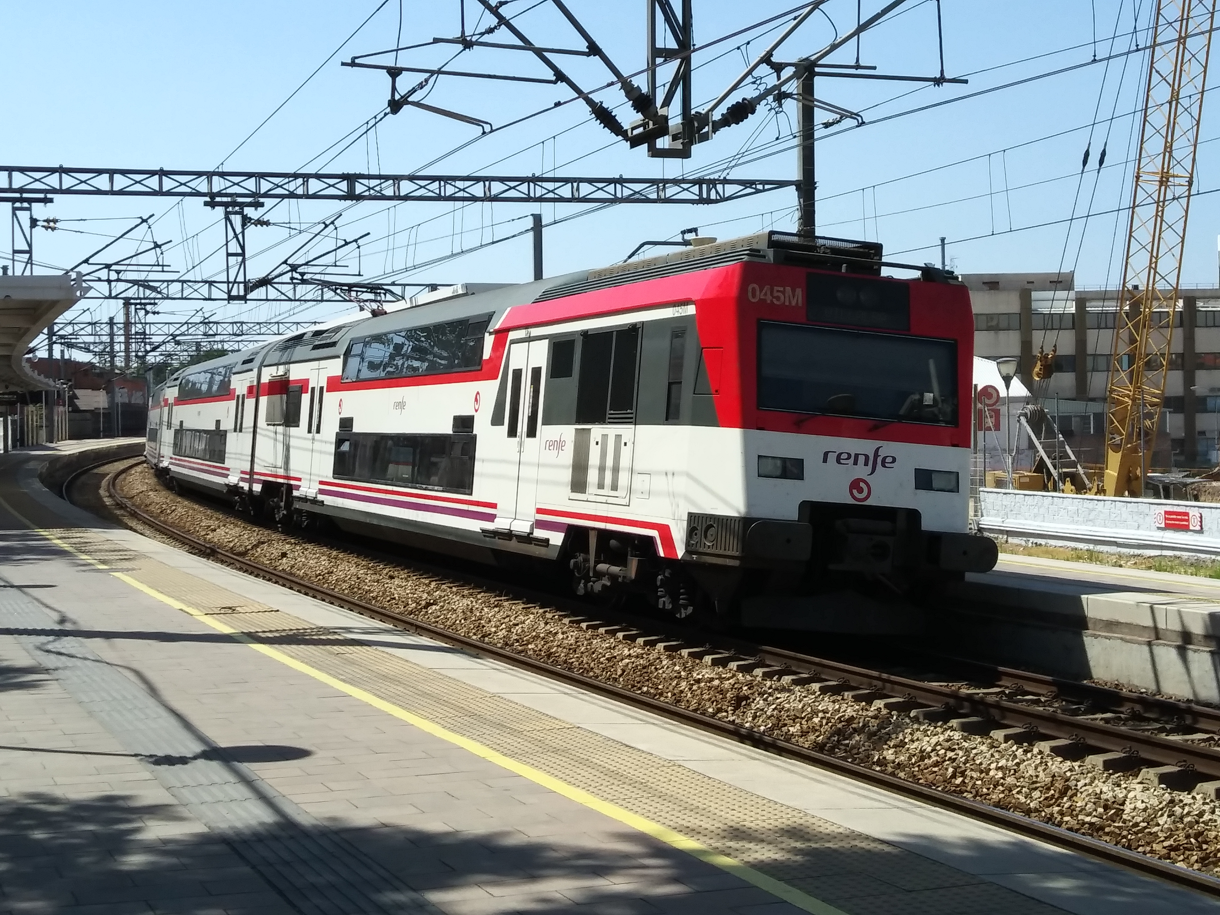 Renfe commuter train S-450 electric railcar at Pozuelo railway station, going to Las Rozas. Rear coach. 11/07/2019